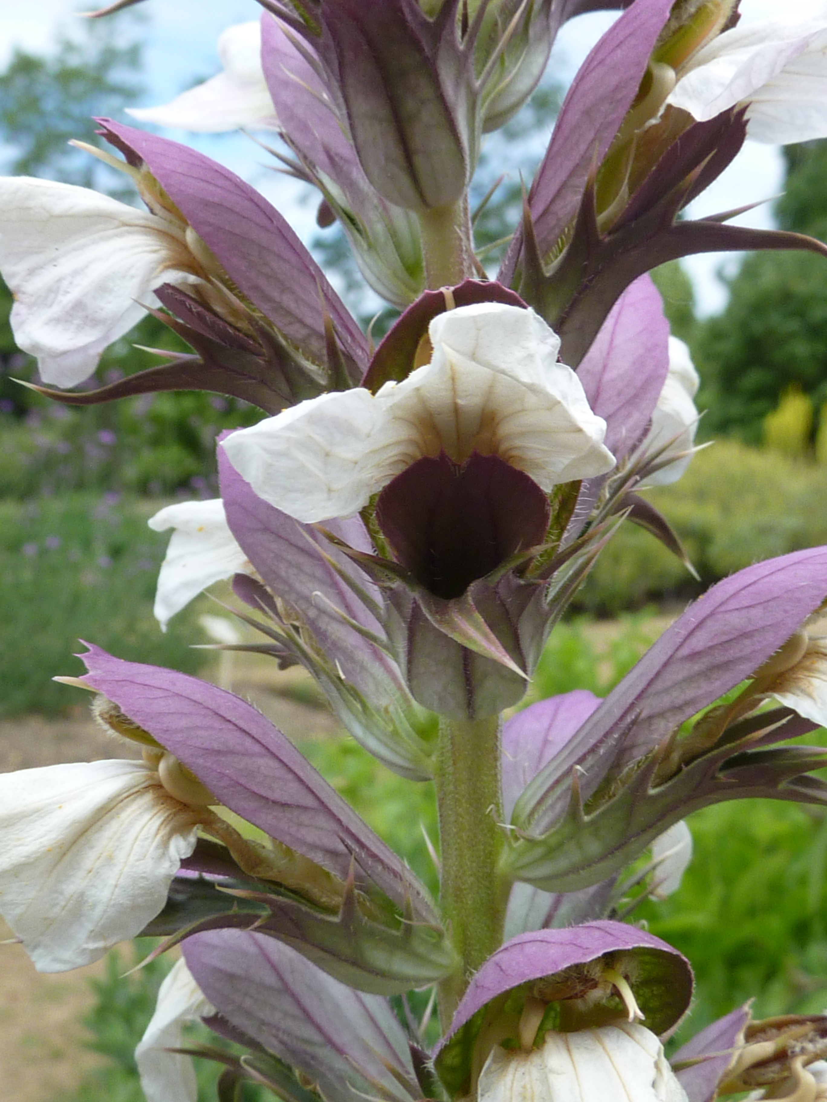 Taken in the Cambridge University Botanic Garden